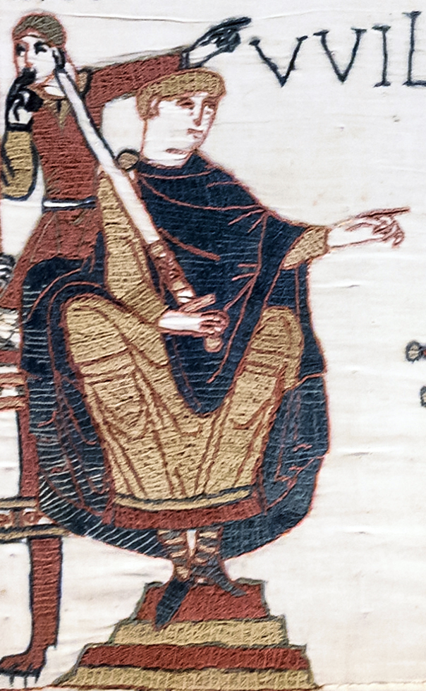 Bayeux Tapestry - Scene 23 (detail): William the Conqueror